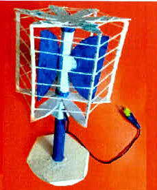 As published by the India Patent Office. Invented and filed by Gaurab Mohapatra. Publication-272747-registered